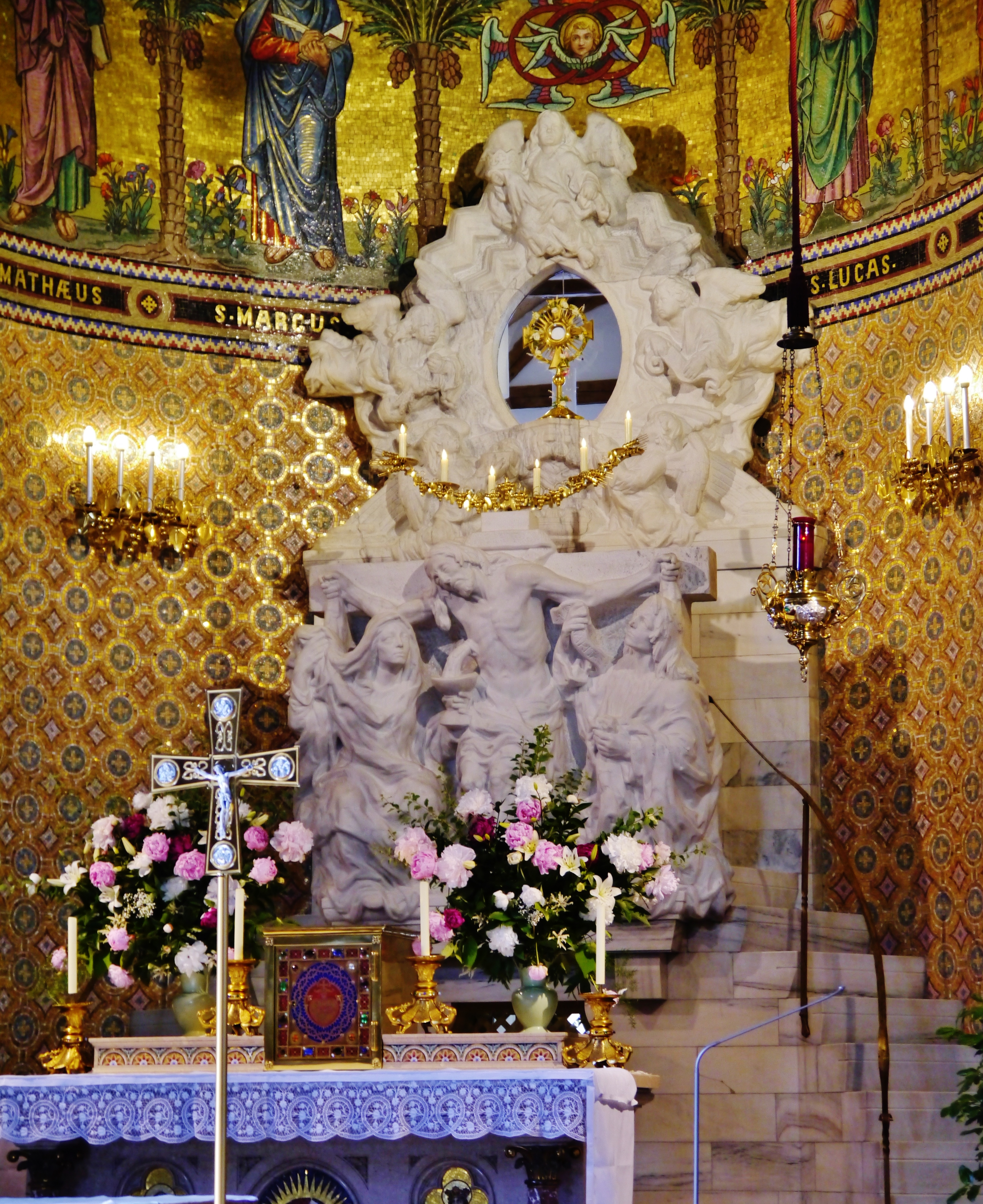 High Altar of the Monastery Church of the Sisters of the Perpetual Adoration, Innsbruck, Tyrol, Austria